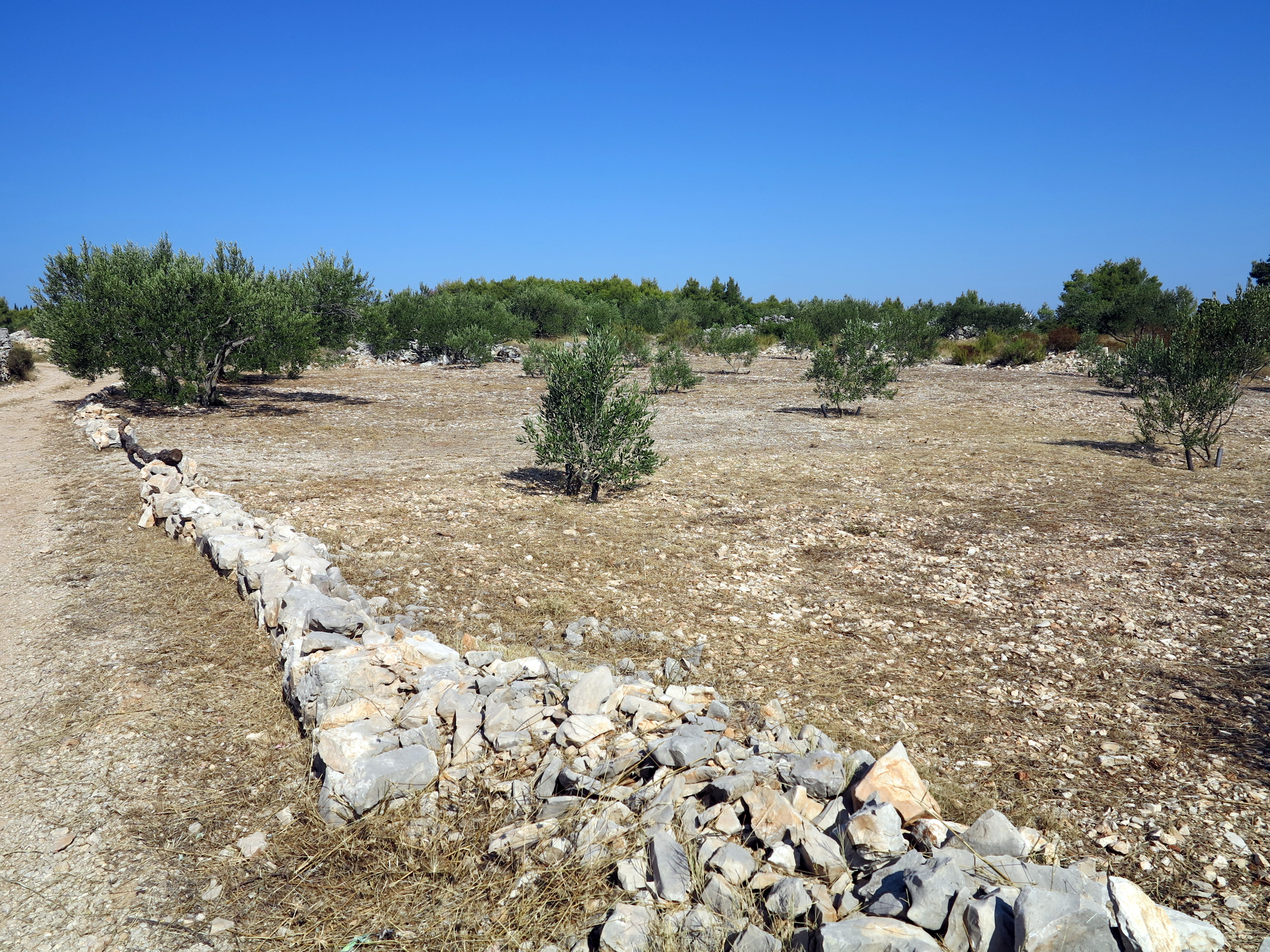 Olive trees near Grohote on the island Šolta / Croatia / Adriatic Sea.